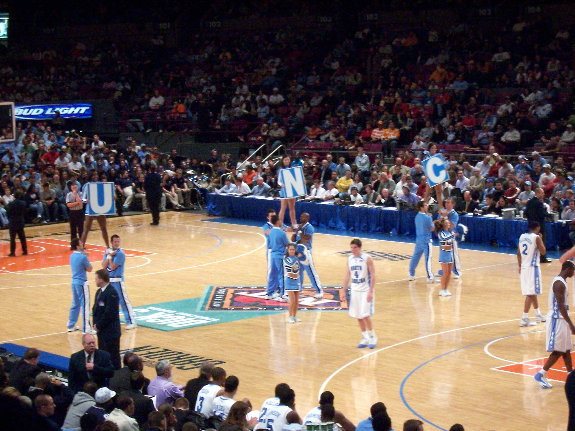 North Carolina vs Tennessee - NIT Season Tip-Off 3rd Place Game, Madison Square Garden, November 24, 2006